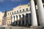 Present building of the National Library of Mongolia